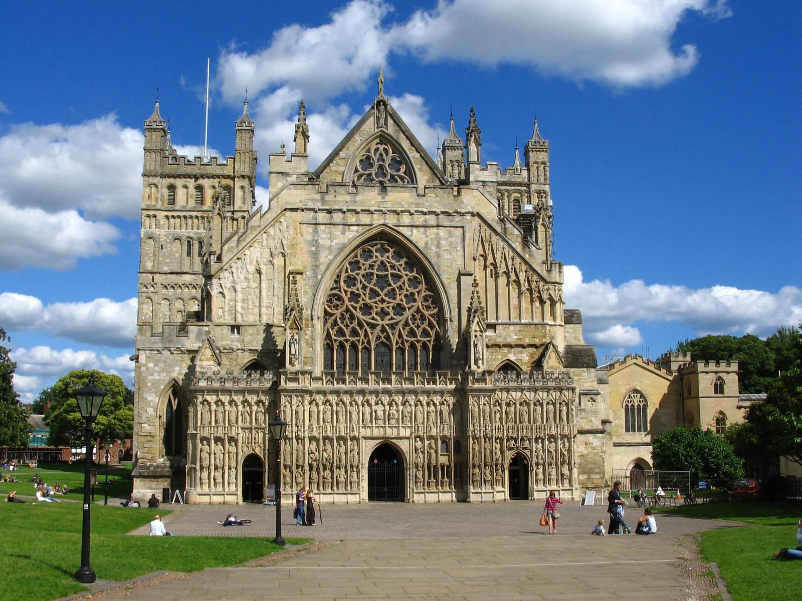 Exeter Cathedral